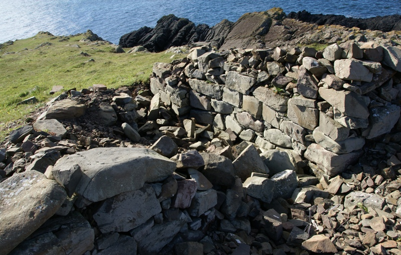 Doon Castle Broch, Ardwell Point, Dumfries and Galloway, Scotland. Seaside/southern entrance.